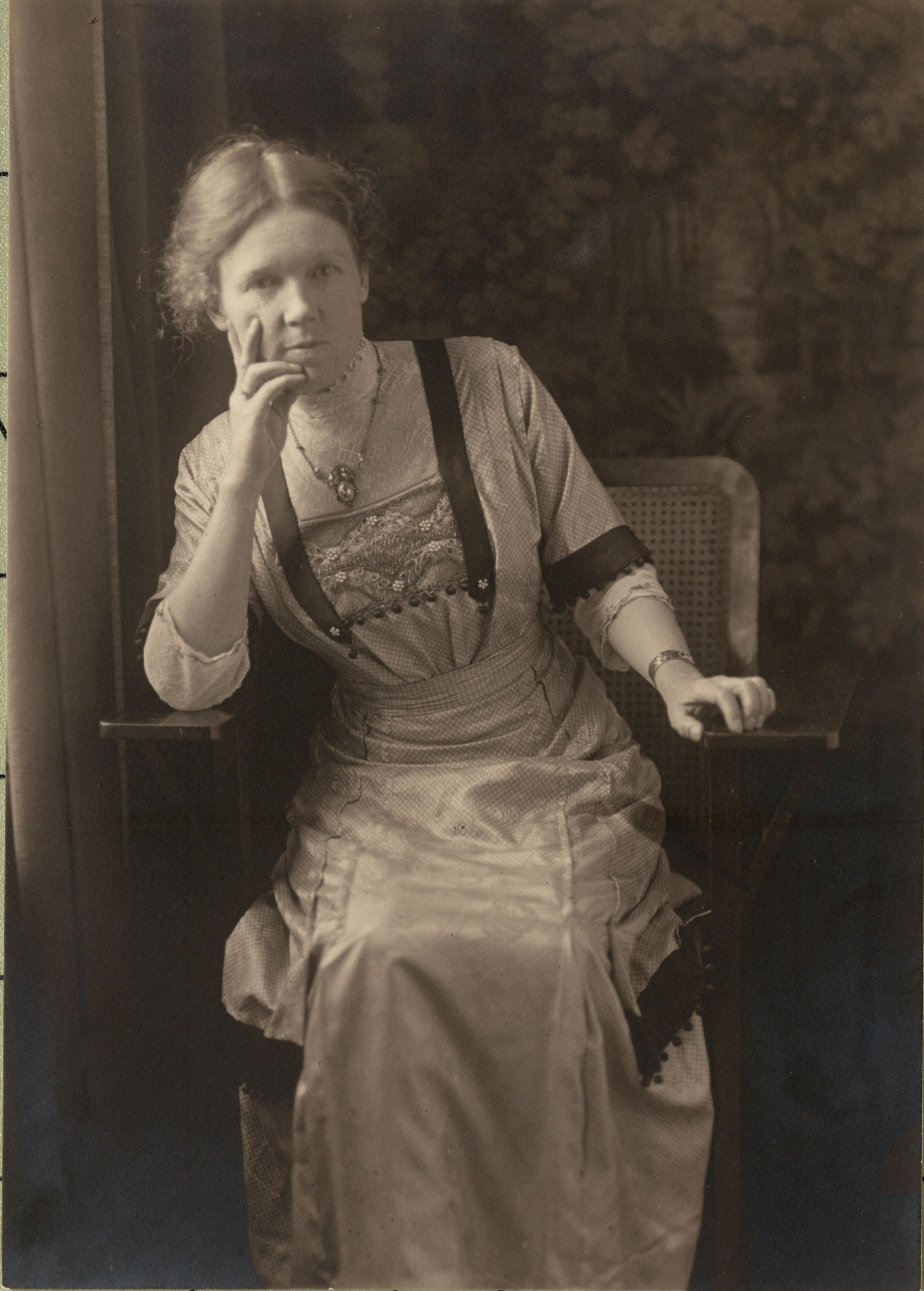 Photograph of Mary Moulton Cheney.